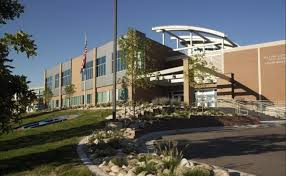 Hinkley after the remodel in 2008.